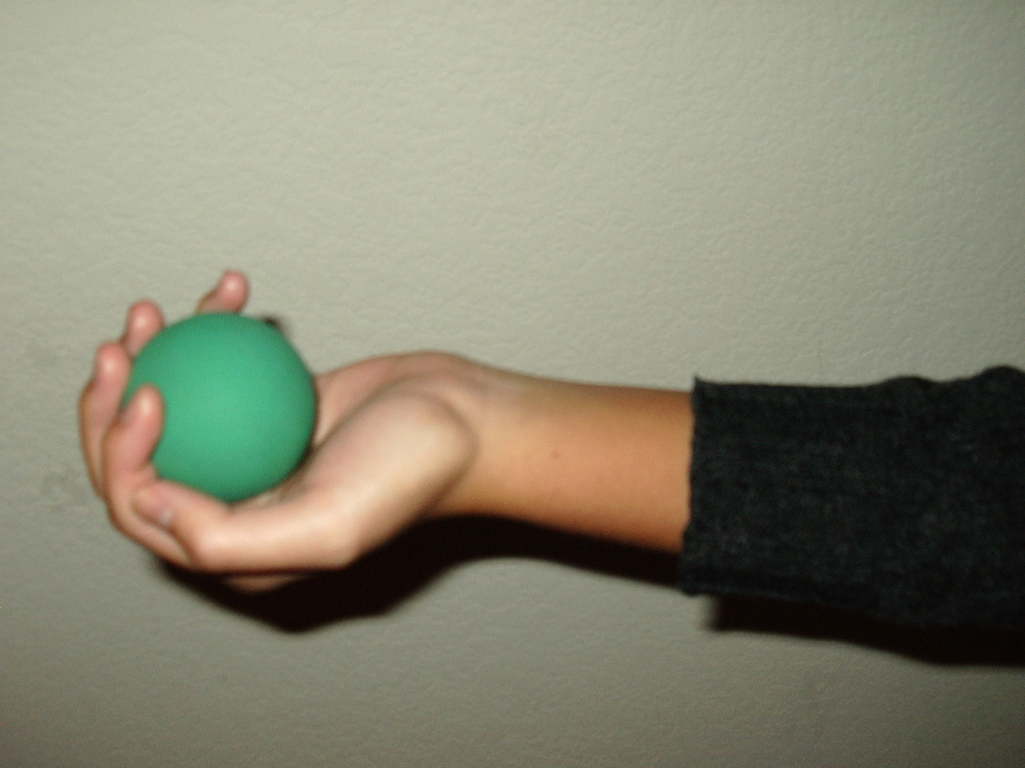 Grip strengthening exercises